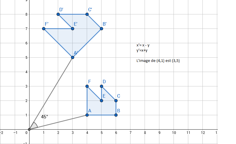 created with geogebra